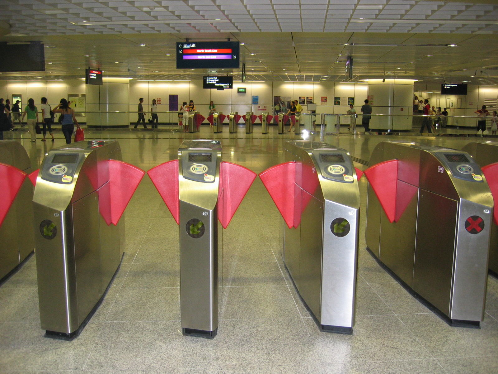 A row of Thales faregates or ticket barriers at Dhoby Ghaut MRT Station, Singapore.